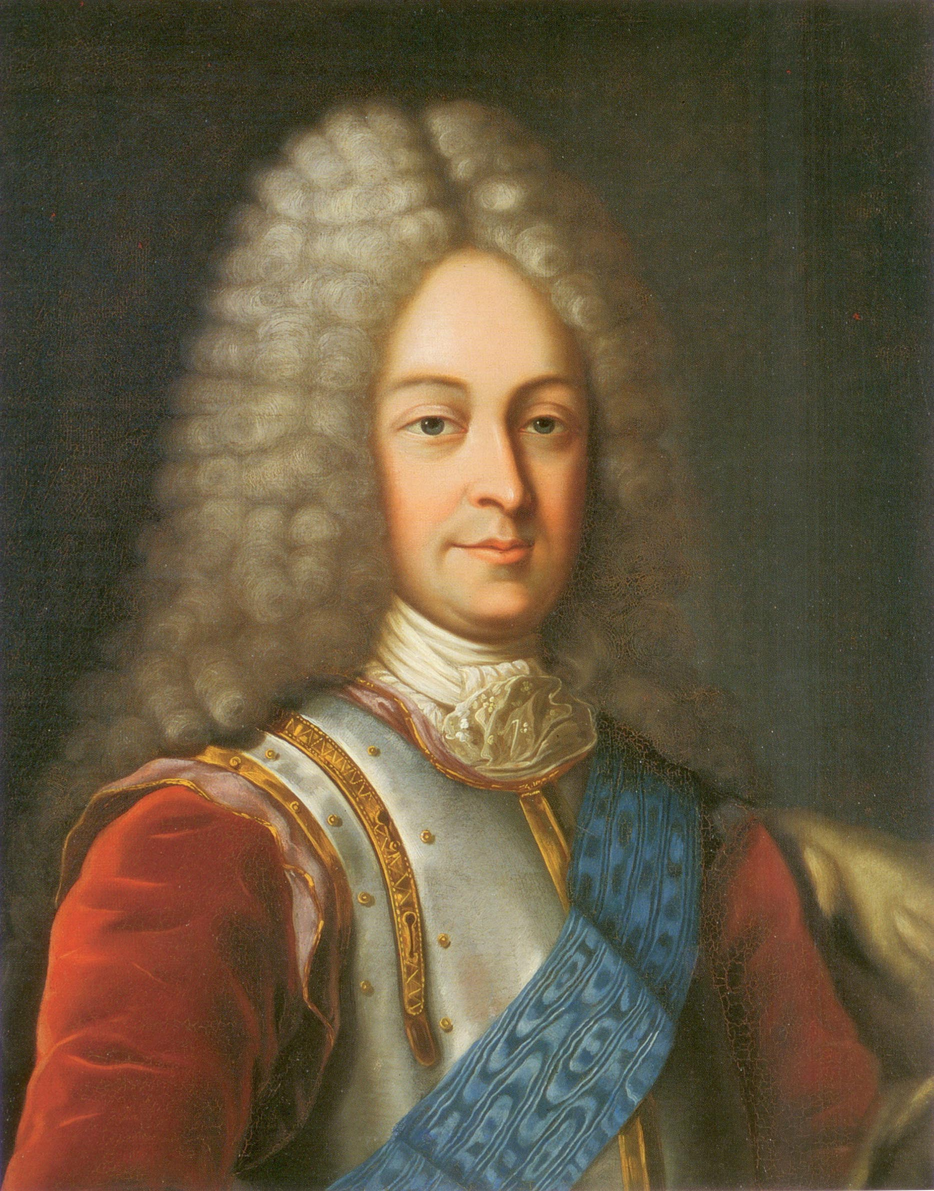 Vasily Lukich Dolgorukov (~1670-1739)